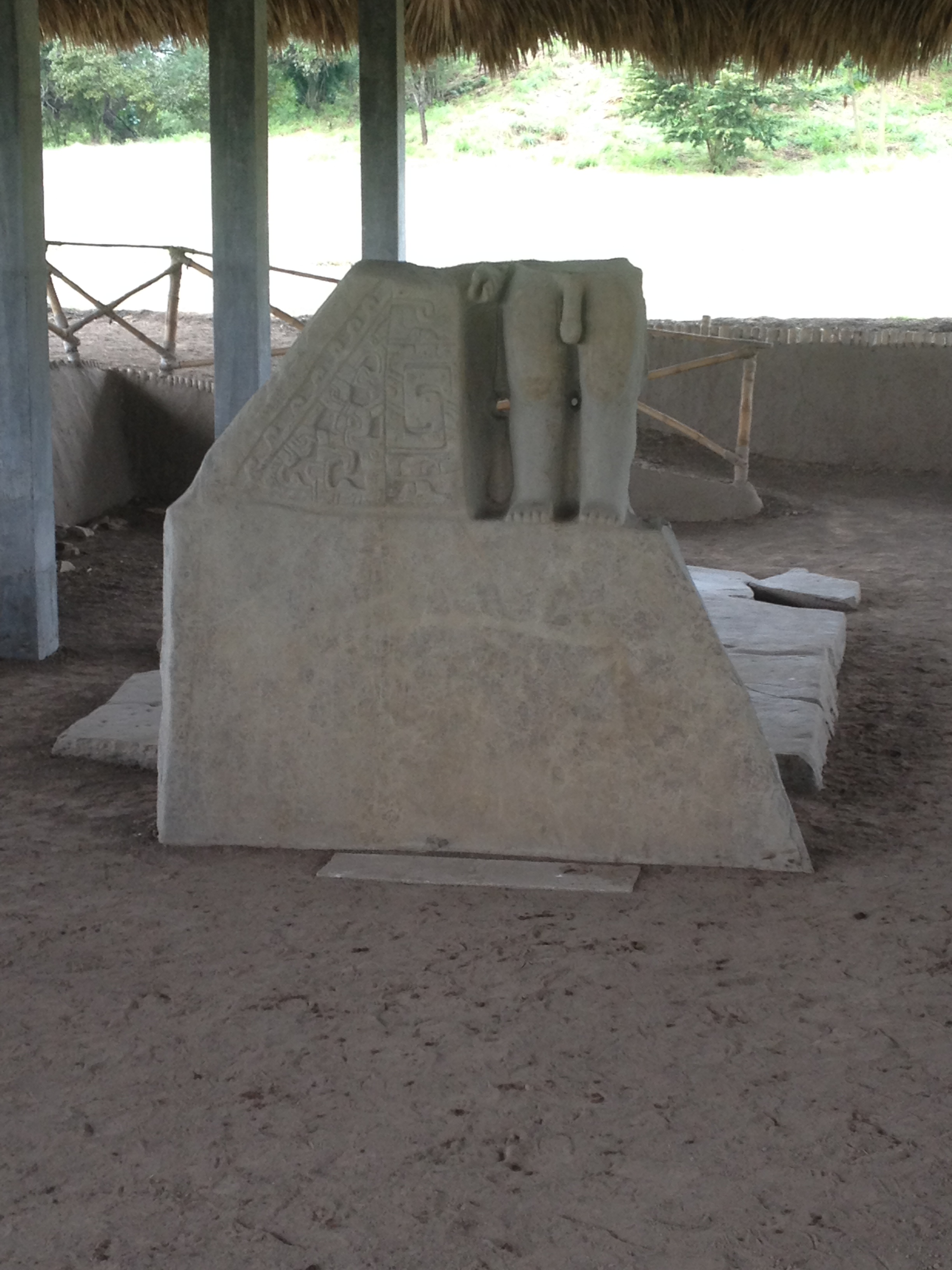 Tomas